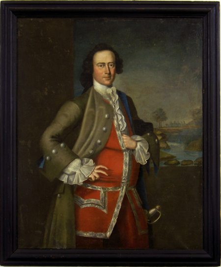 Portrait of Thomas Westbrook Waldron. Historic New England, Boston, Massachusets, USA